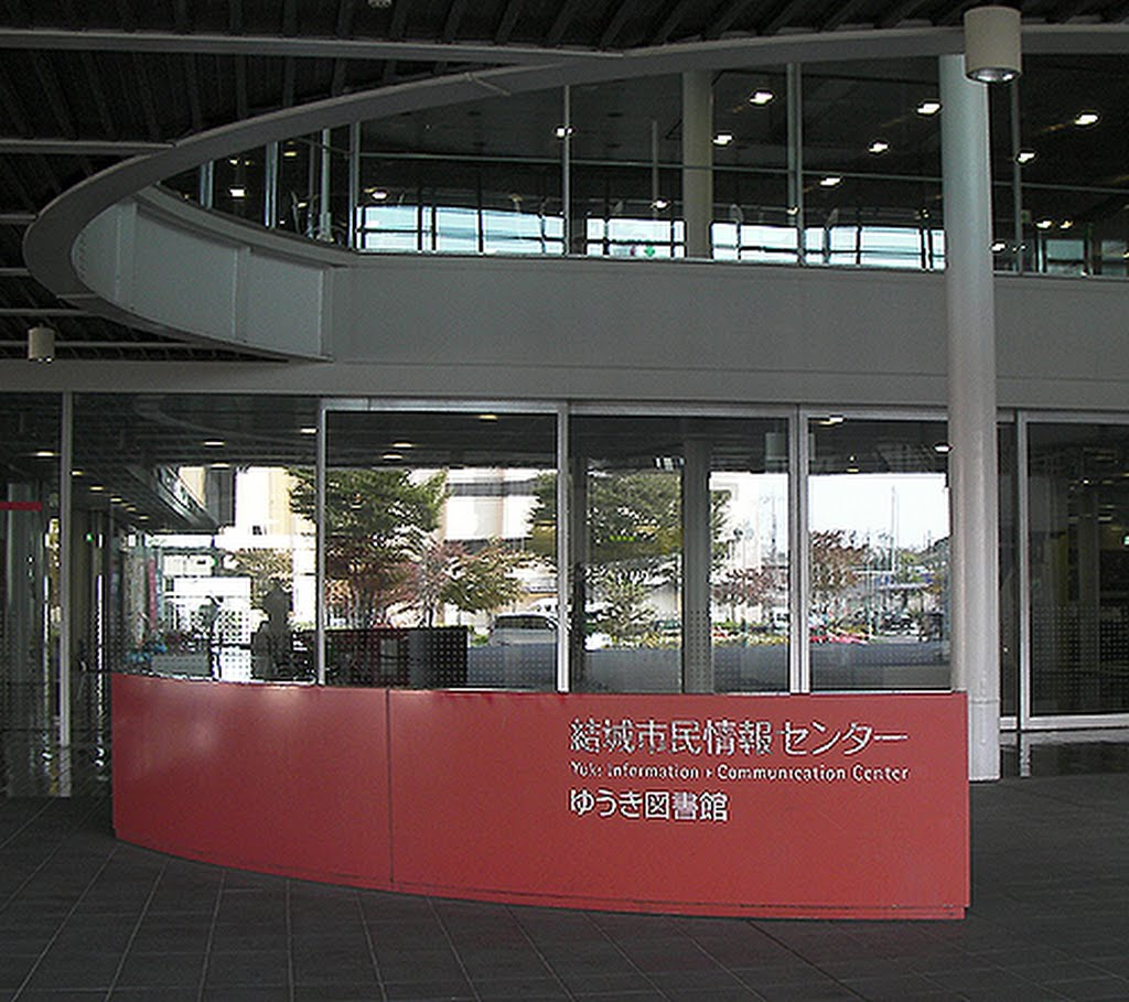 This is an entrance of Yuki Library in Yuki, Ibaraki, Japan.